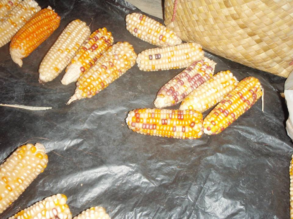 Maize in Soibada